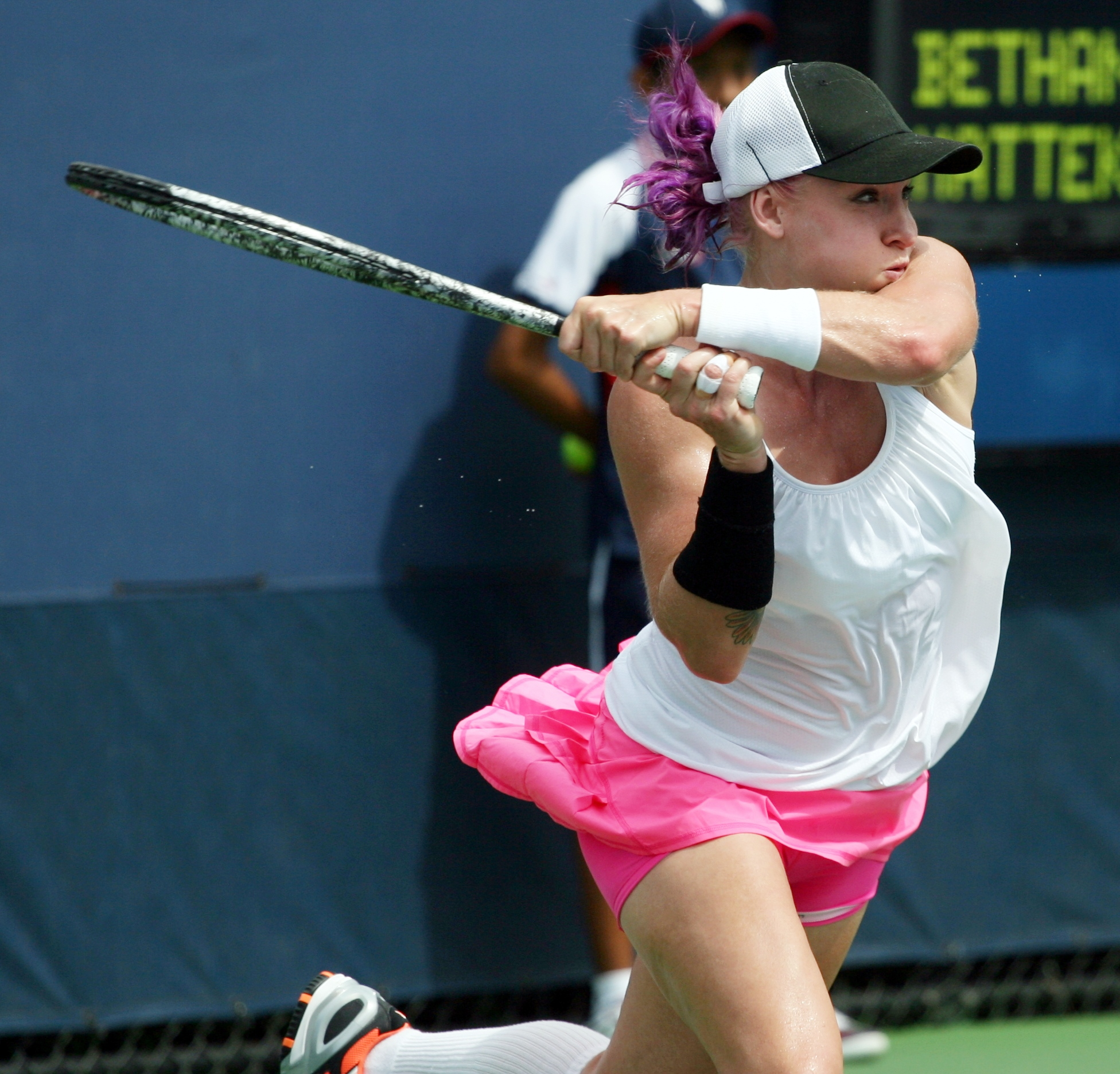 Thursday, August 29